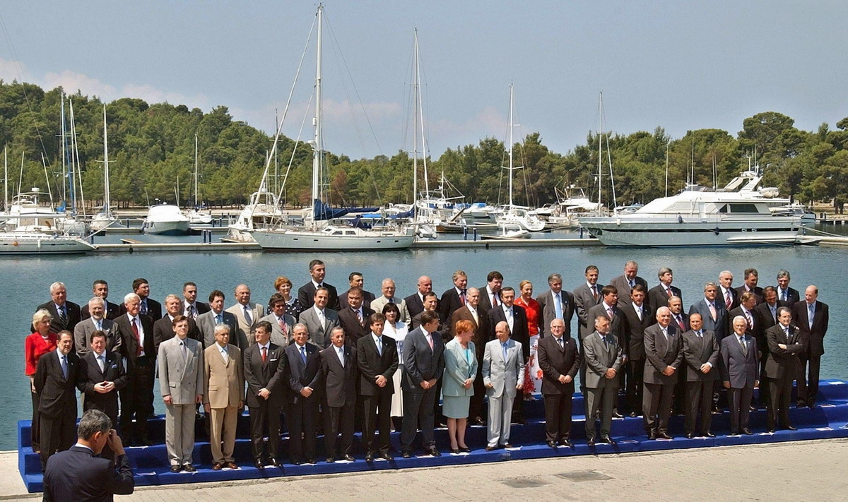 The 25 leaders of E.U. member states at the 2003 Thessaloniki European Union Summit, in Porto Carras, Chalkidiki. Organized under the Greek Presidency.